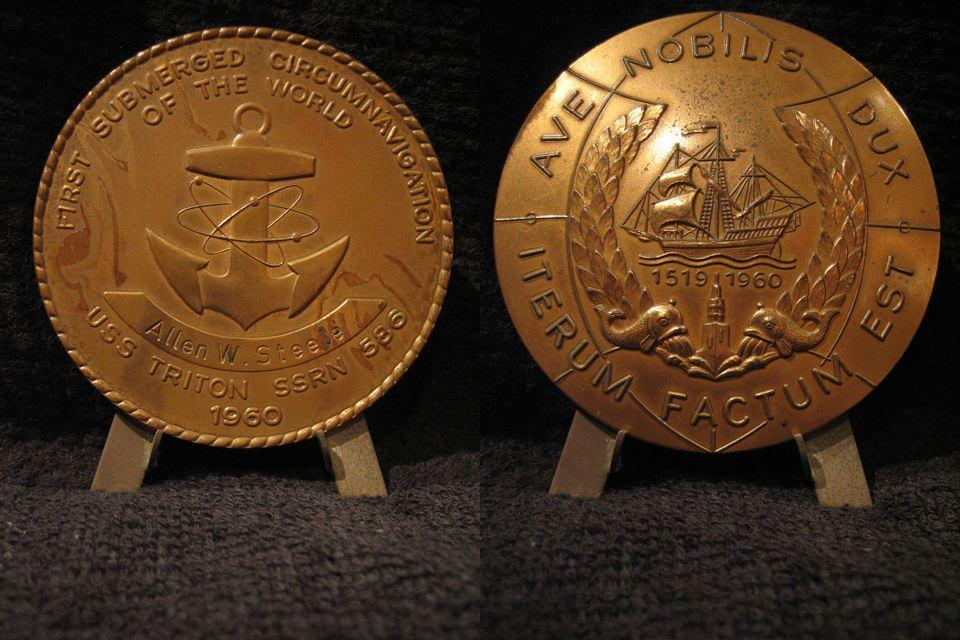 Triton Medal This is a photograph of the Triton Medal, presented to each member of the Circumnavigation Crew by Captain Edward L. Beach who had the medals cast in Bremerhaven, Germany when Triton visited that port in the fall of 1960. On the face of the medal is a clear anchor with three electron rings circling the shank. The name of each recipient is engraved below the anchor crown. Around the circumference of the medal's face is the inscription, "FIRST SUBMERGED CIRCUMNAVIGATION OF THE WORLD" and "USS TRITON SSRN 586 1960". The edge of the medal's face is encircled by rope. On the reverse of the medal is a replica of The Triton Plaque.